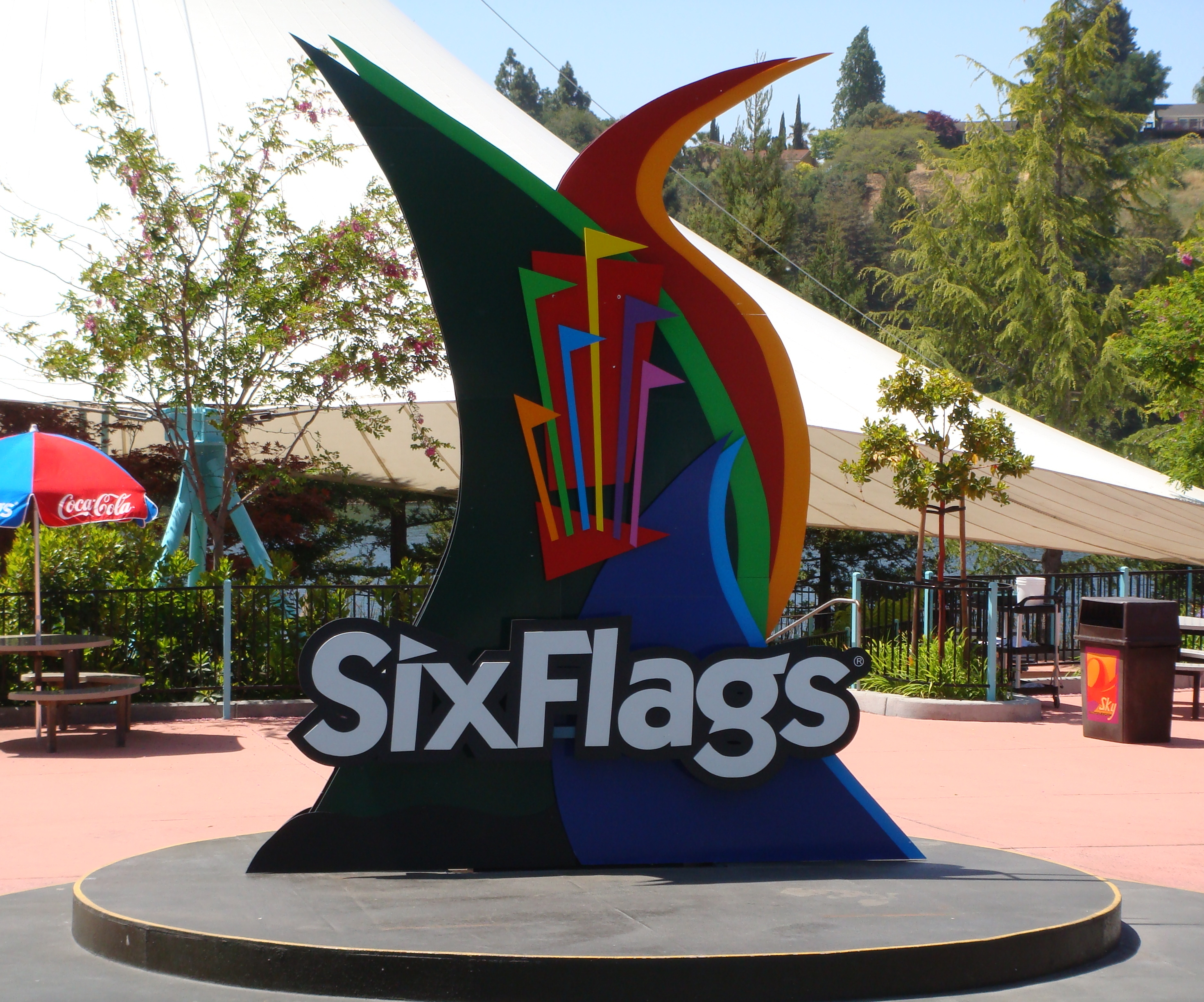 Six flags